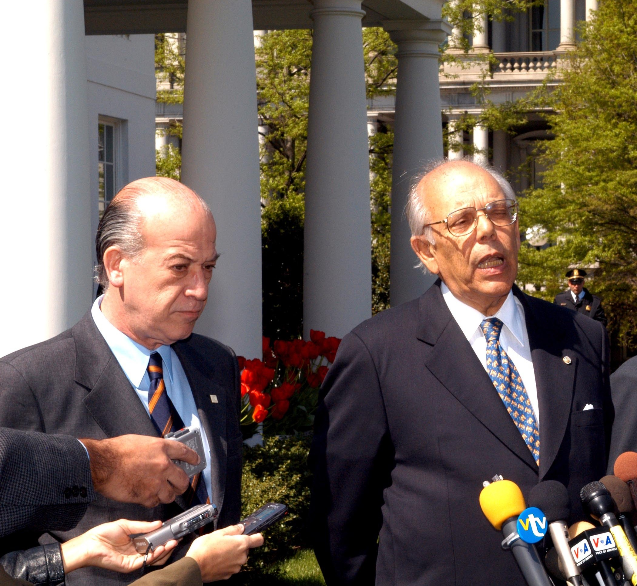 Uruguayan Ambassador to the U.S. Hugo Fernandez Faingold and Uruguayan President Jorge Batlle.